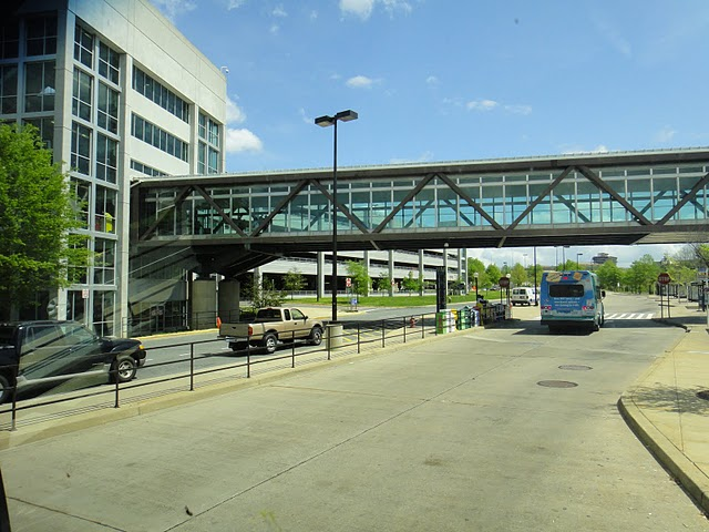 Pedestrian bridge from the parking garage to the train station.